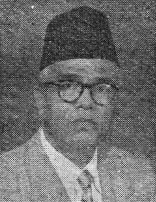 Haji Siradjuddin Abbas, chairman of the Islamic Education Movement Party in Indonesia, elected to the Indonesian legislature in 1955